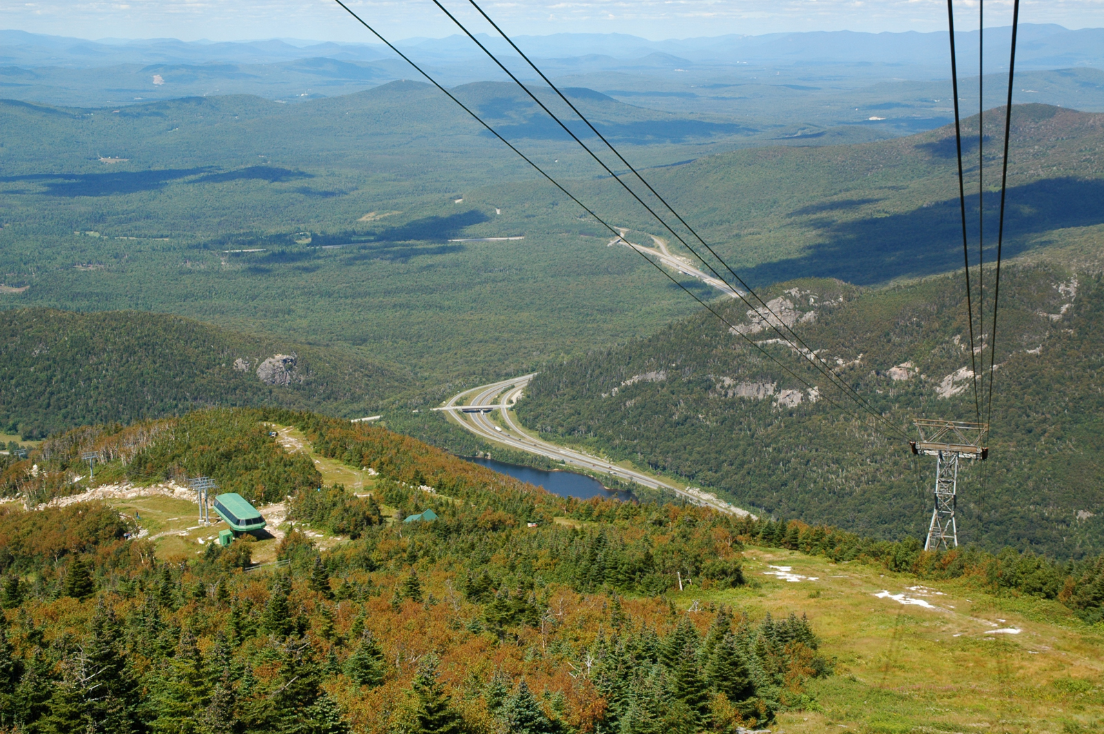 White Mountains, view from Cannon Mountain